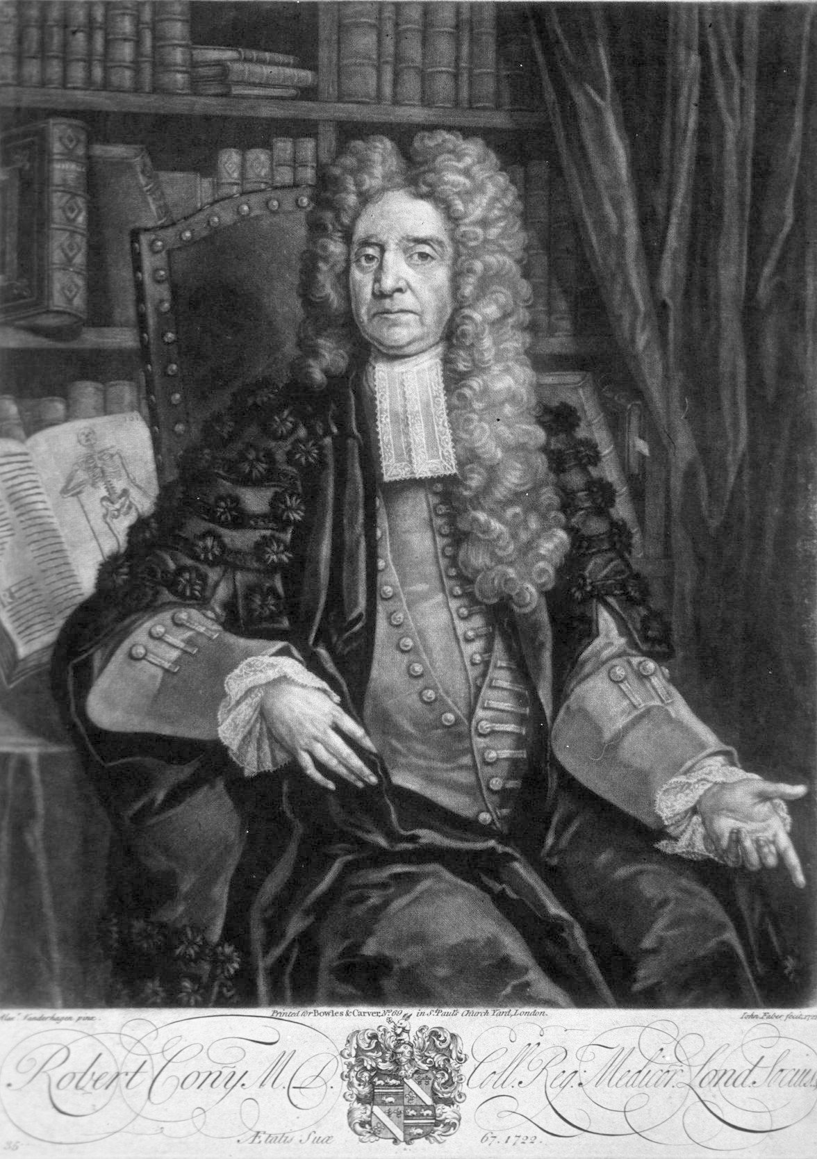 Robert Conny (or Cony; 1646?-1713)